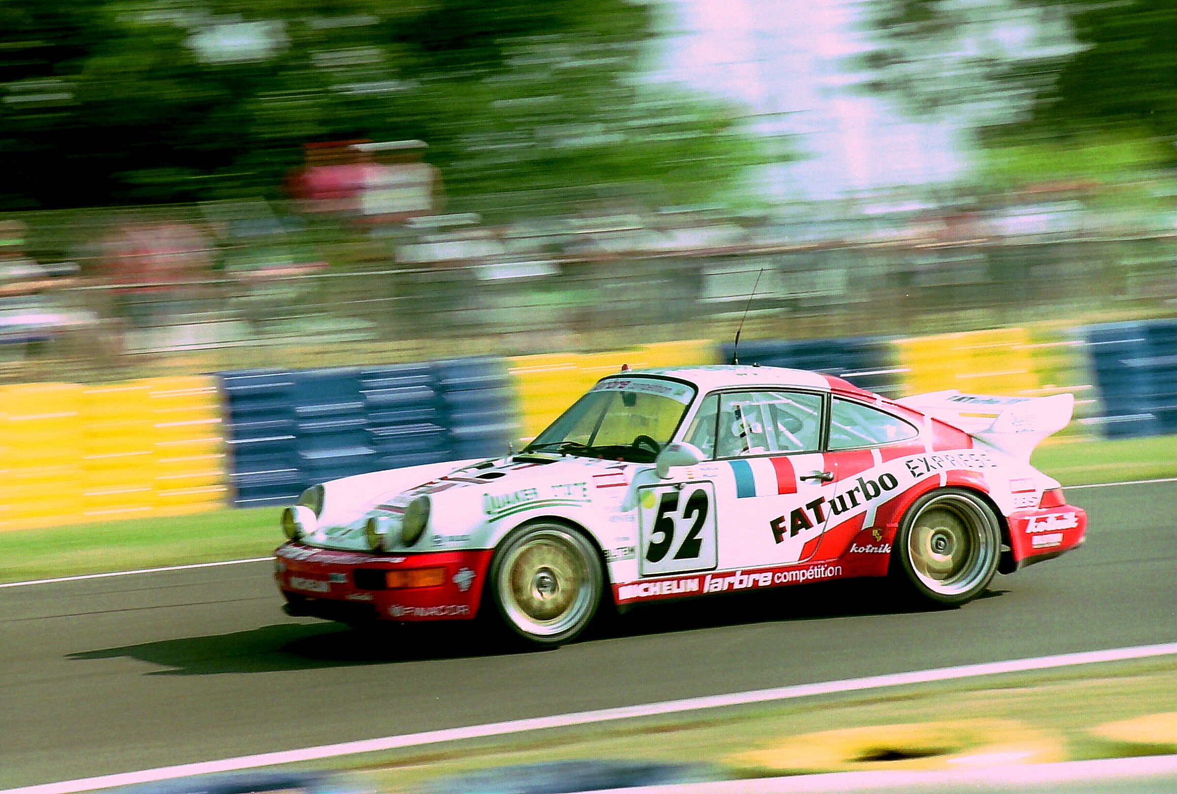 Porsche 911 Carrera RSR - Jesus Pareja, Dominique Dupuy & Carlos Palau heads down towards the Esses at the 1994 Le Mans